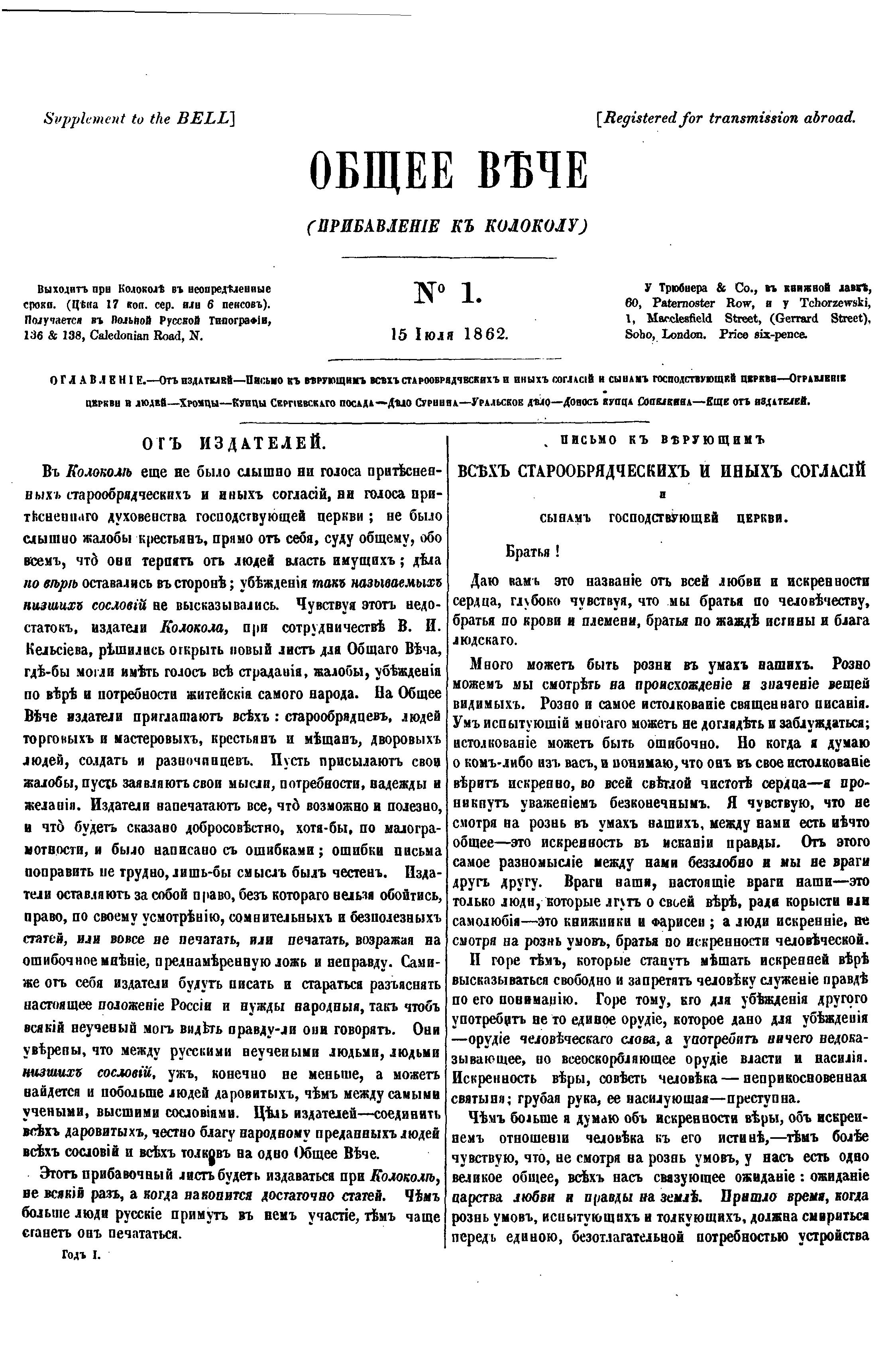 The title page of issue "Общее вече" ("Common Veche"), the exile-russian publication of Alexander Herzen and Nikolay Ogarev. London, 1862.